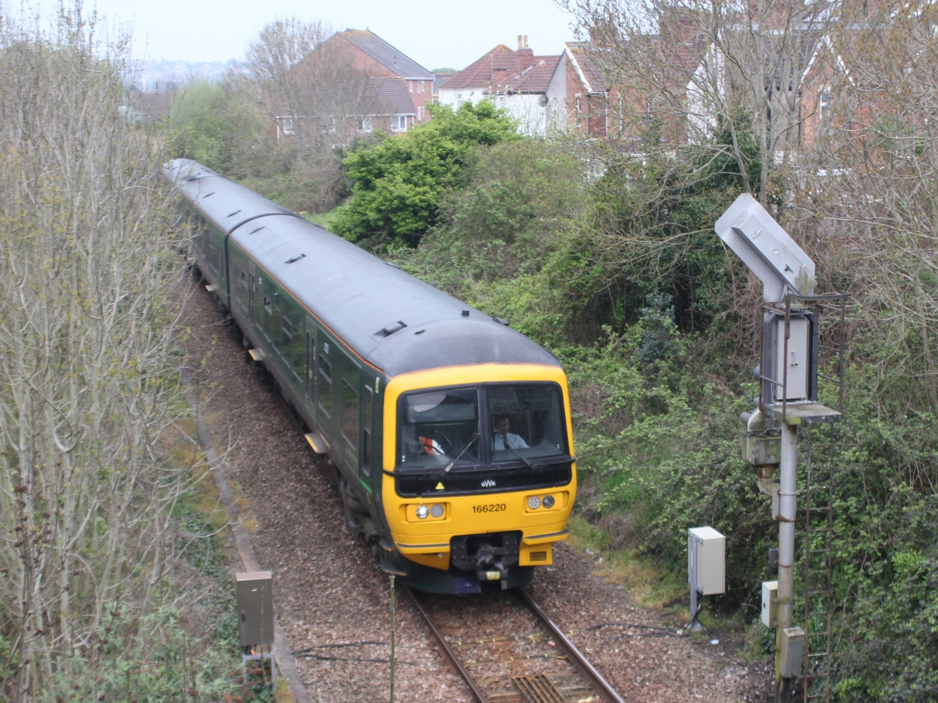 Great Western Railway 'Turbo' 166220 passes the signal protecting the southern approach to Weston-super-Mare station. It is operating a service from Taunton to Cardiff Central.